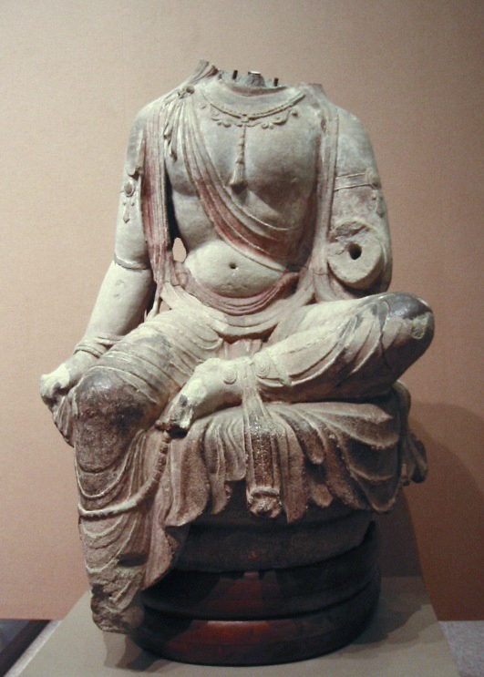 A Chinese bodhisattva statue from the Tang Dynasty (618-907 CE), first half of the 8th century. Sandstone. Cave 14, Tianlongshan, Shanxi Province. Tokyo National Museum.